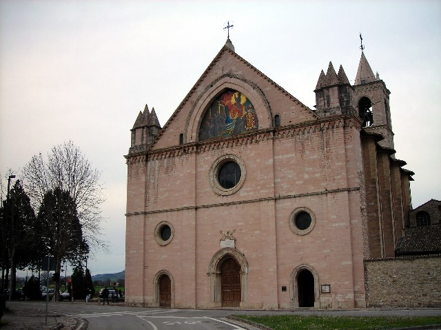 church of Rivotorto, Assisi, Perugia, Italy